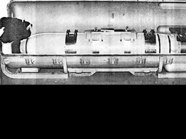 Wet-eye bomb